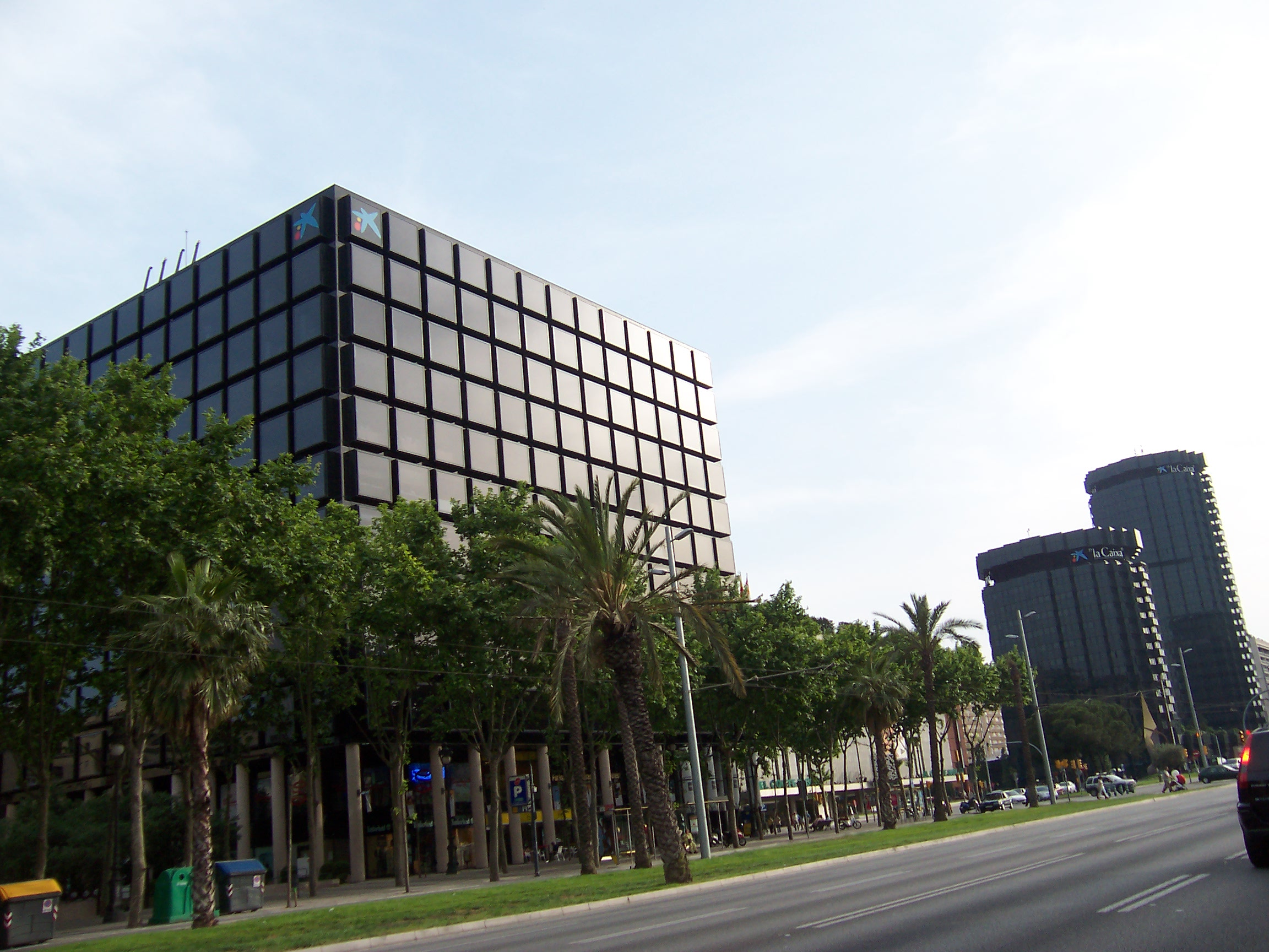 Diagonal Avenue, in Barcelona.